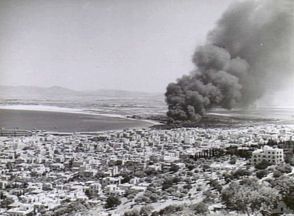 1940-09. HAIFA - OIL TANKS ABLAZE AFTER ITALIAN BOMBS HAVE BEEN DROPPED. (NEGATIVE BY PARER).